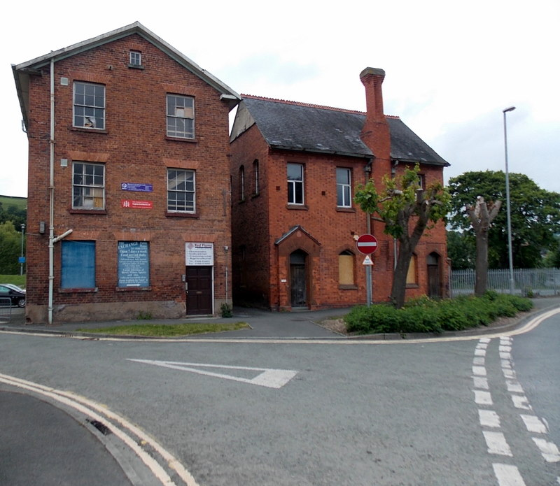 Former TA Centre and former Magistrates' Court, Newtown